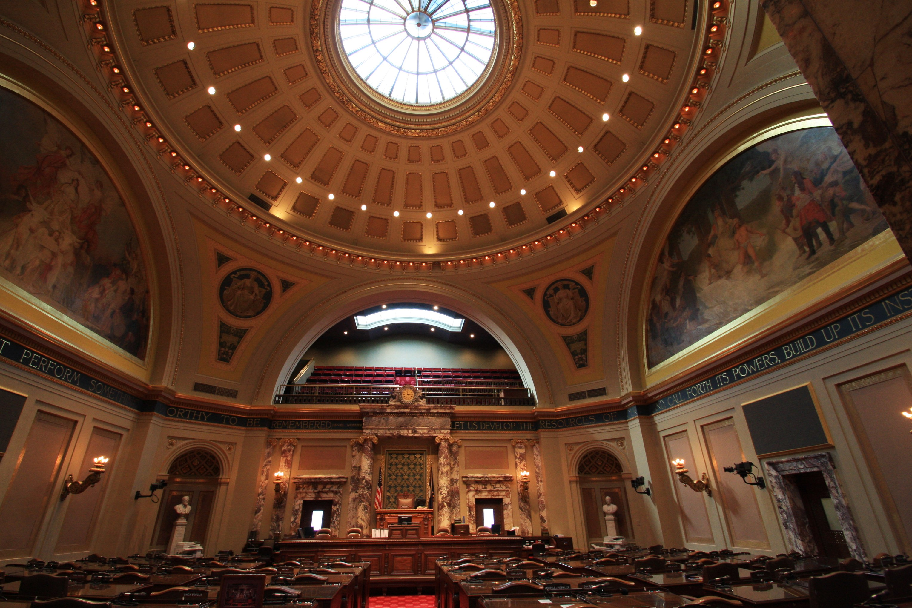 The Senate Chamber of the Minnesota State Capitol.